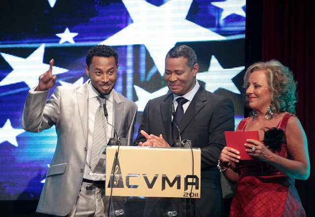 1st Cabo Verde Music Awards (CVMA 2011)